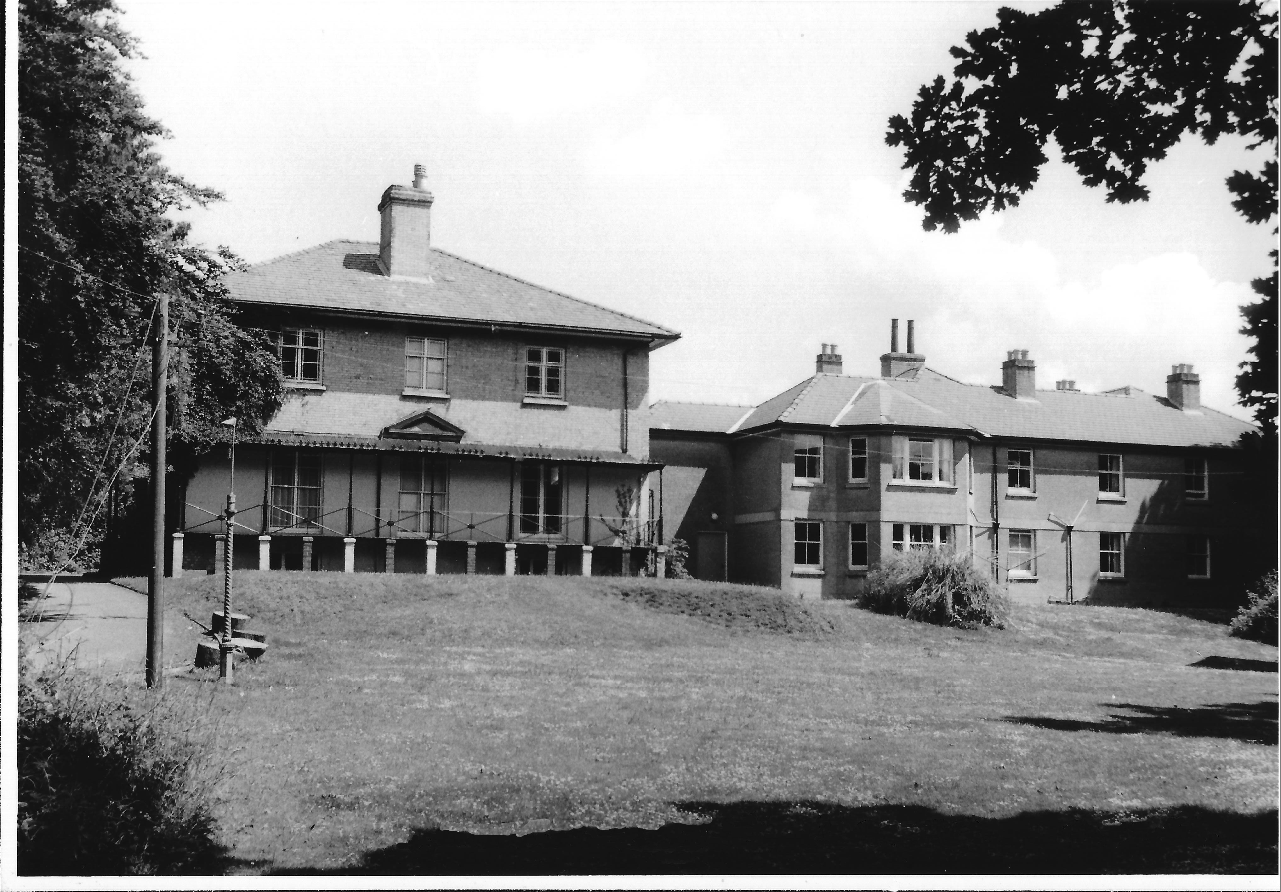 A building that was part of the Old Manor Hospital and the former Fisherton Asylum. Now a care home. This image is from 1995